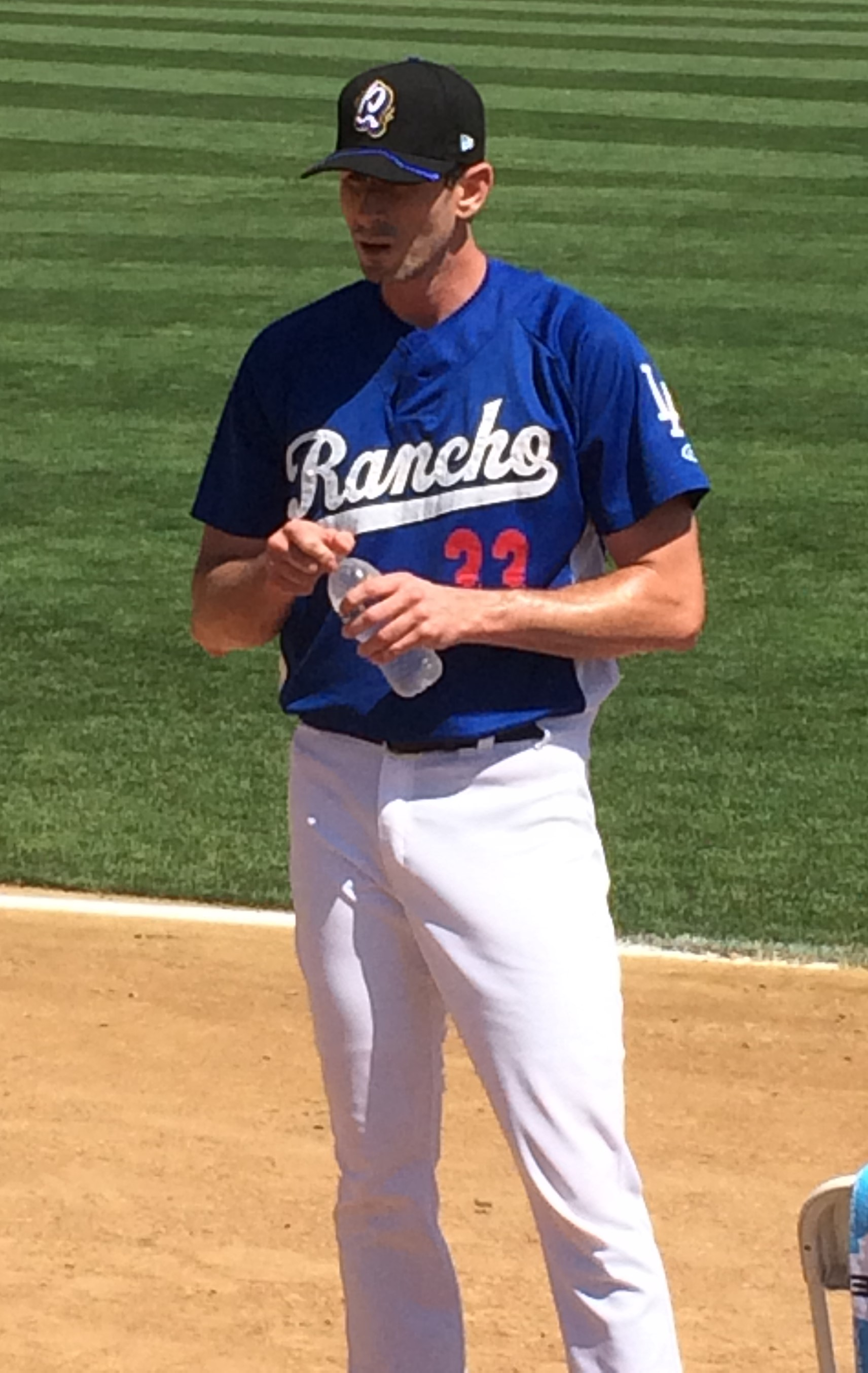 Brandon McCarthy on rehab assignment with the Rancho Cucamonga Quakes